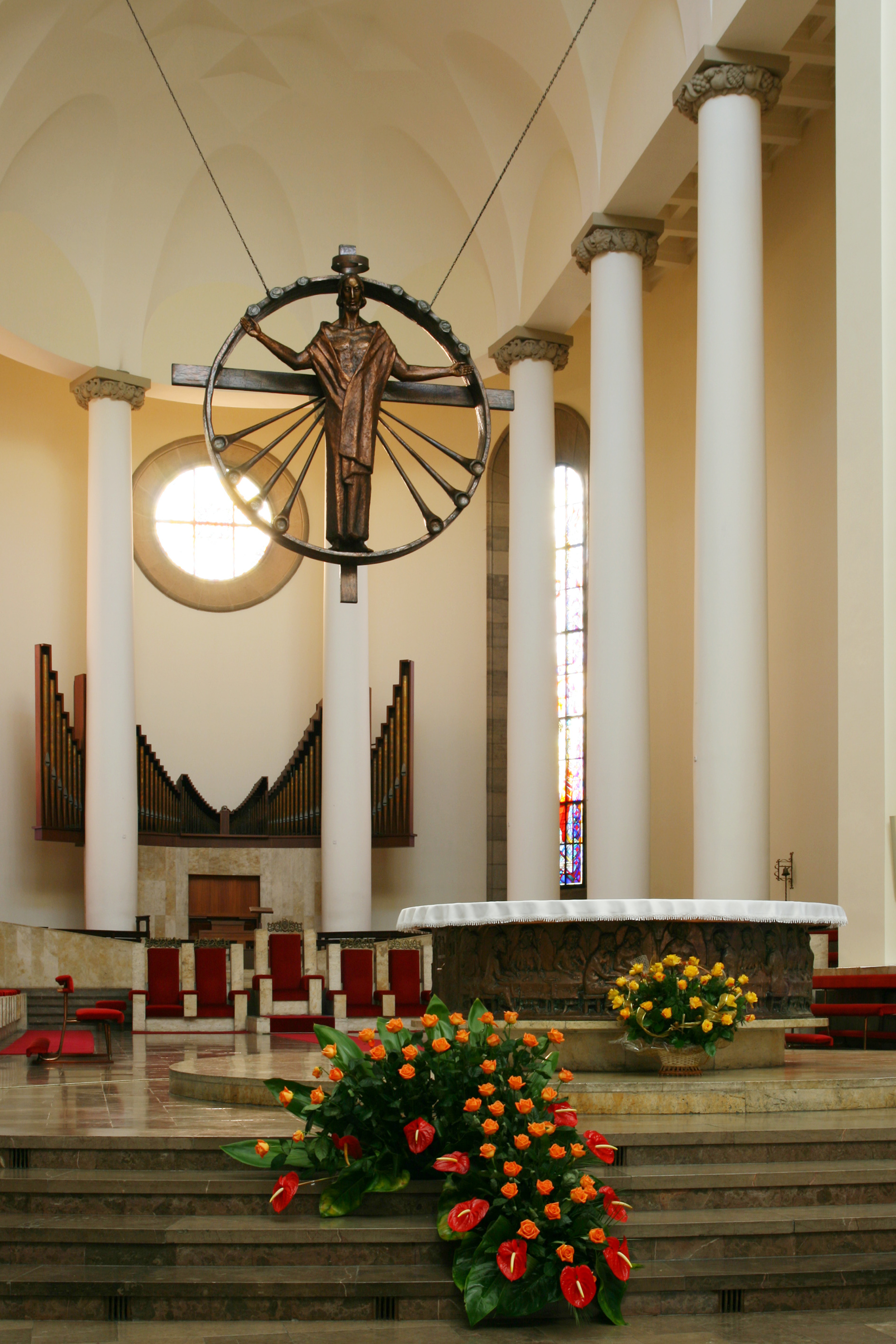 Cathedral in Katowice (Poland).